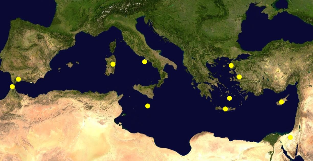 Location hypothesis of Atlantis in Mediterranean Sea.